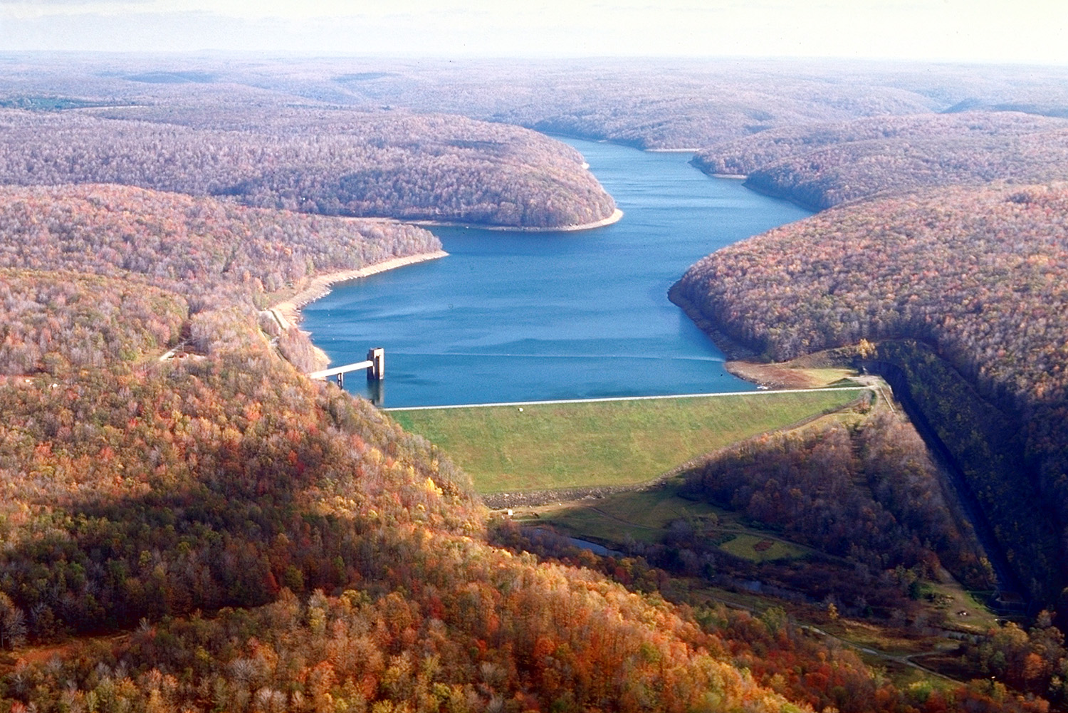 The East Branch Clarion River Lake and dam near Wilcox, Elk County, Pennsylvania, USA. The U.S. Army Corps of Engineers constructed the dam for flood control on the Clarion River and Allegheny Rivers.